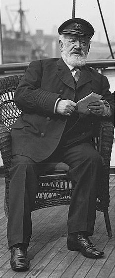 Elias Cornelius Benedict aboard the steam yacht Oneida. Bain News Service,, publisher. [no date recorded on caption card] 1 negative : glass ; 5 x 7 in. or smaller. Notes: Title from unverified data provided by the Bain News Service on the negatives or caption cards. Forms part of: George Grantham Bain Collection (Library of Congress). Format: Glass negatives. Repository: Library of Congress, Prints and Photographs Division, Washington, D.C. 20540 USA, General information about the Bain Collection is available at Persistent URL: Call Number: LC-B2- 2662-12